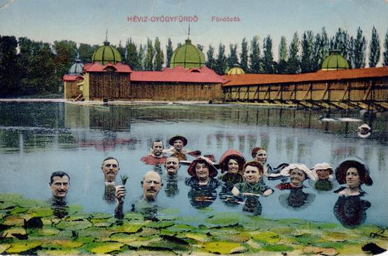 Lake Hévíz in old times